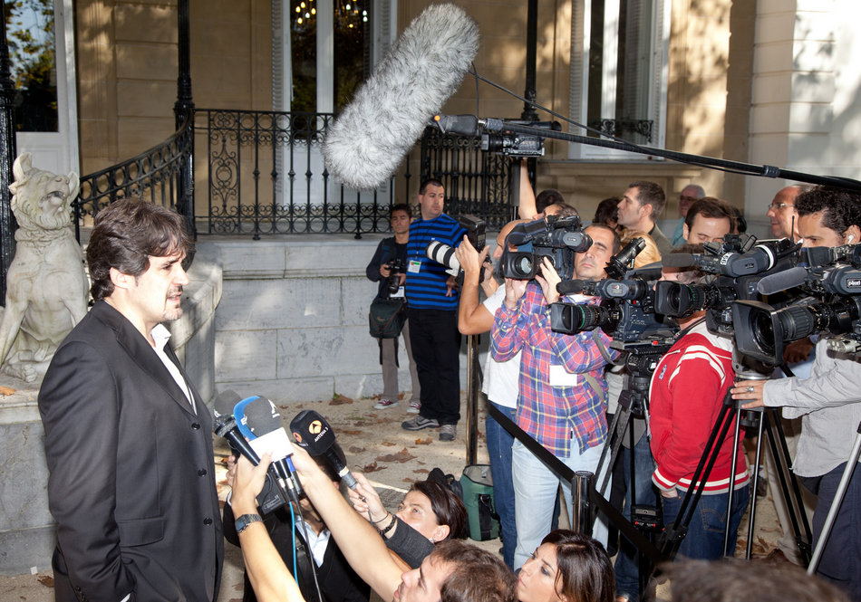 Pello Urizar at the International Conference to Promote the resolution of the conflict in the Basque Country